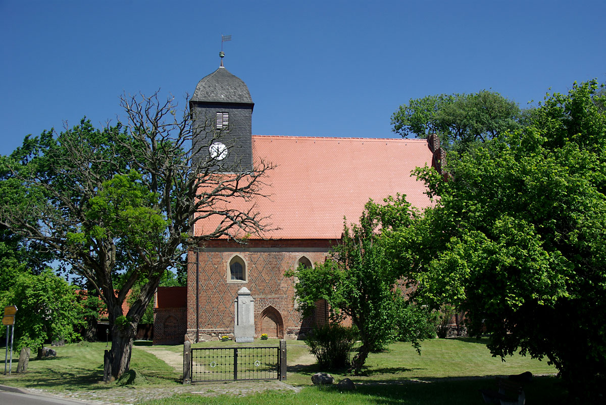 Church of Briesen, Spreewald, Brandenburg, Germany